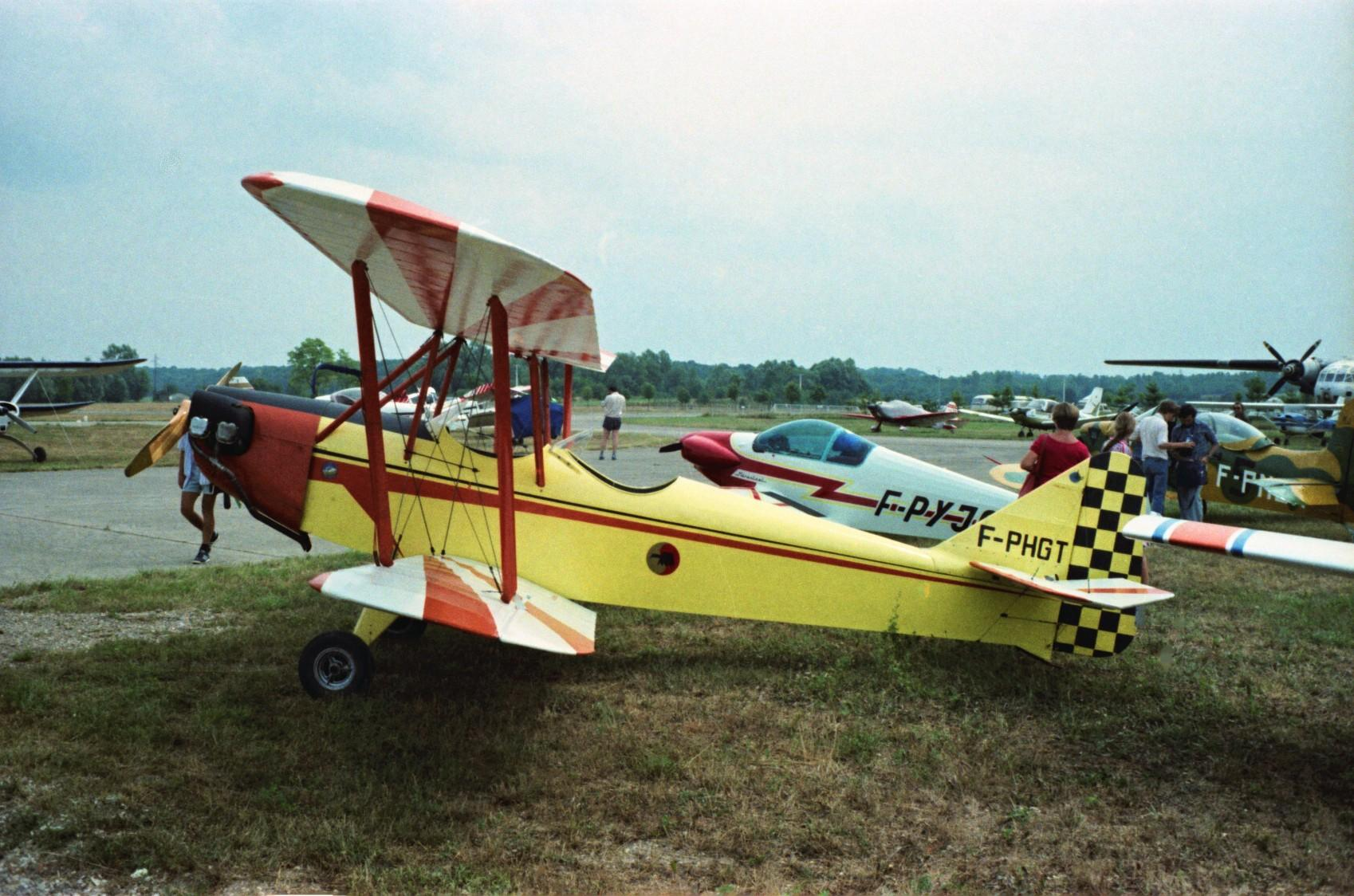 F-PHGT Leopoldoff L 55 1956